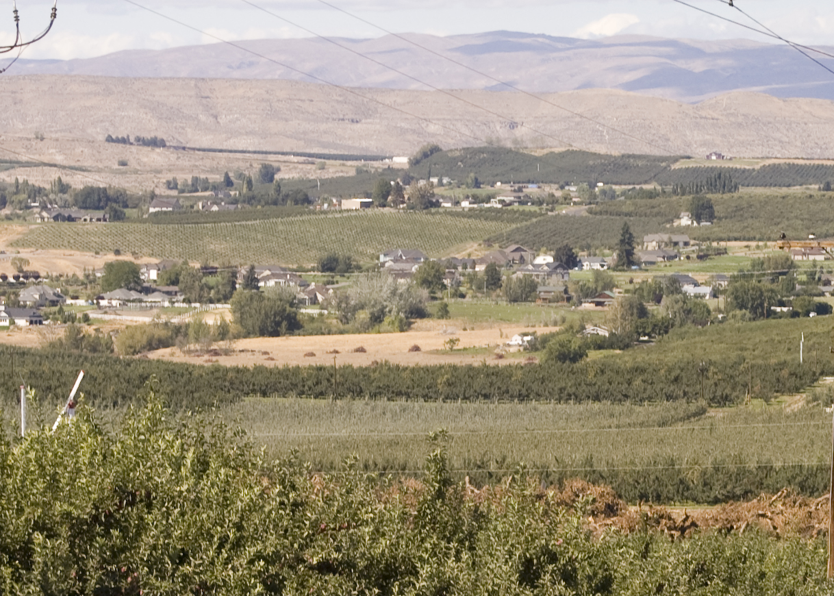 Apple Orchards near Selah, WA.